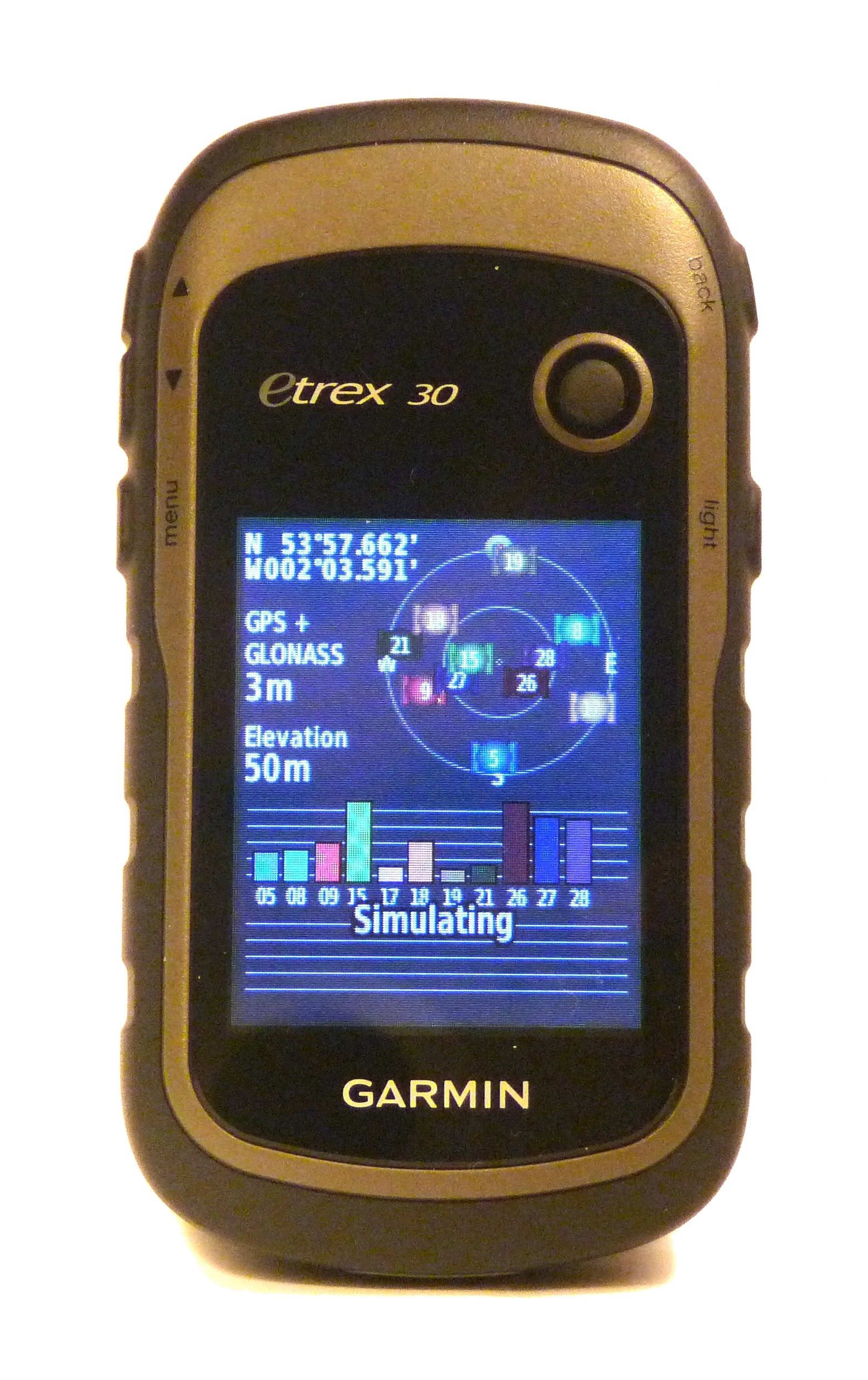 A Garmin eTrex 30 handheld GPS and GLONASS receiver.